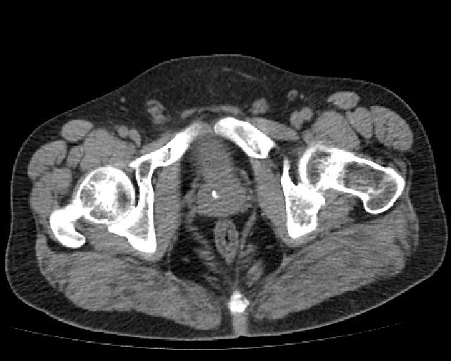 Prostatic stone, CT-image.